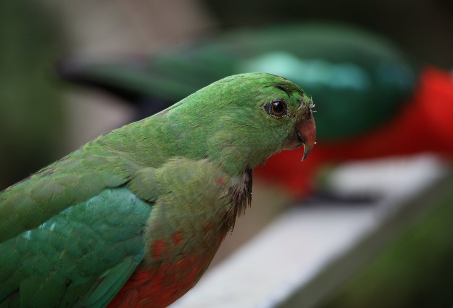 Australian King Parrot (Alisterus scapularis). Female. Shot with Canon 5DS + Sigma 150-500mm lens.